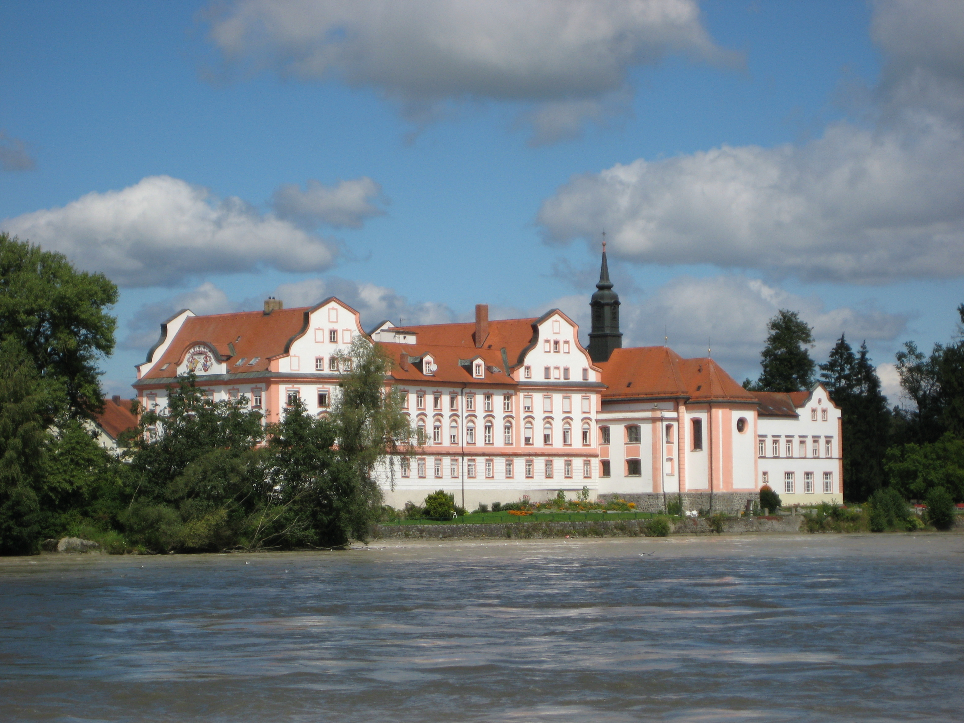 View of castle Neuhaus am Inn from Schärding